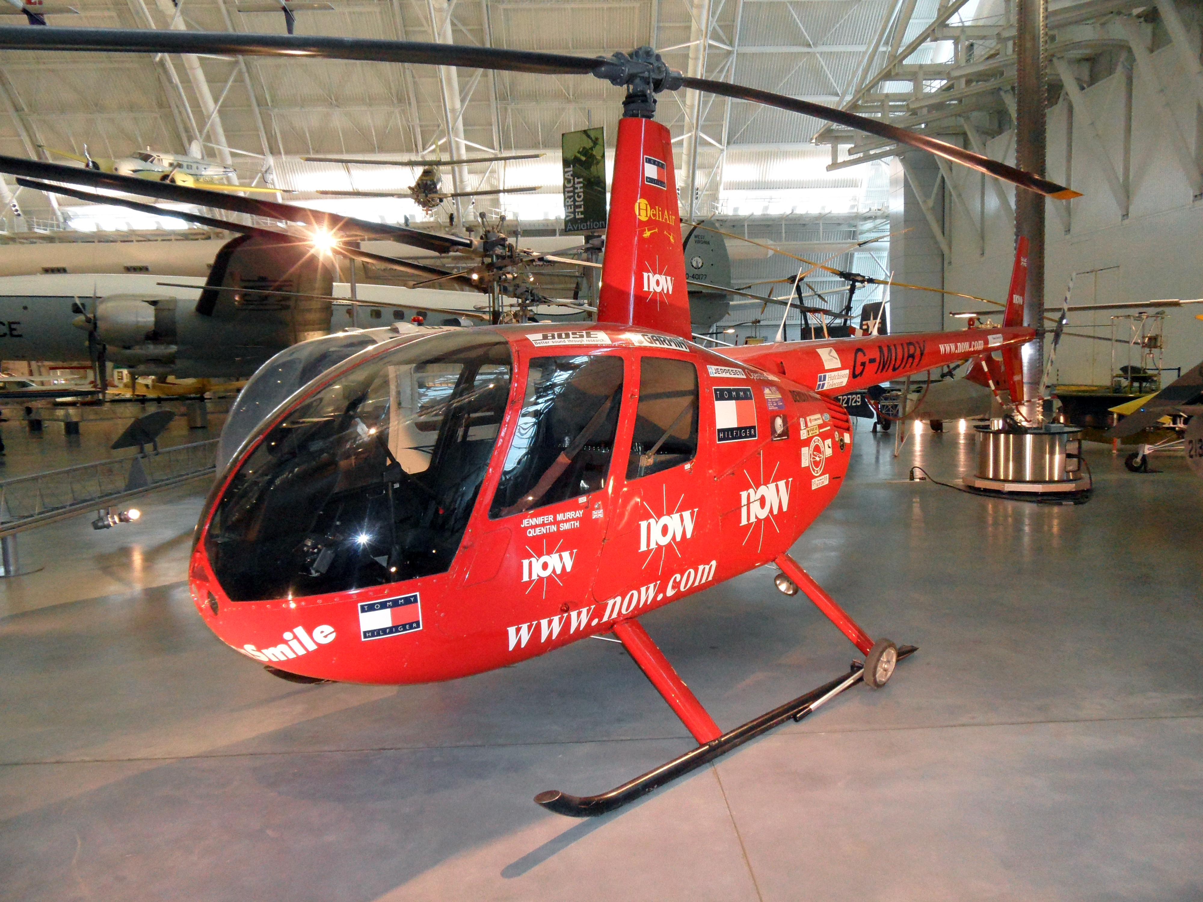 This is the Robinson R44 within the Steven F. Udvar-Házy Center in Virginia (branch of the Smithsonian National Air and Space Museum in Washington DC).